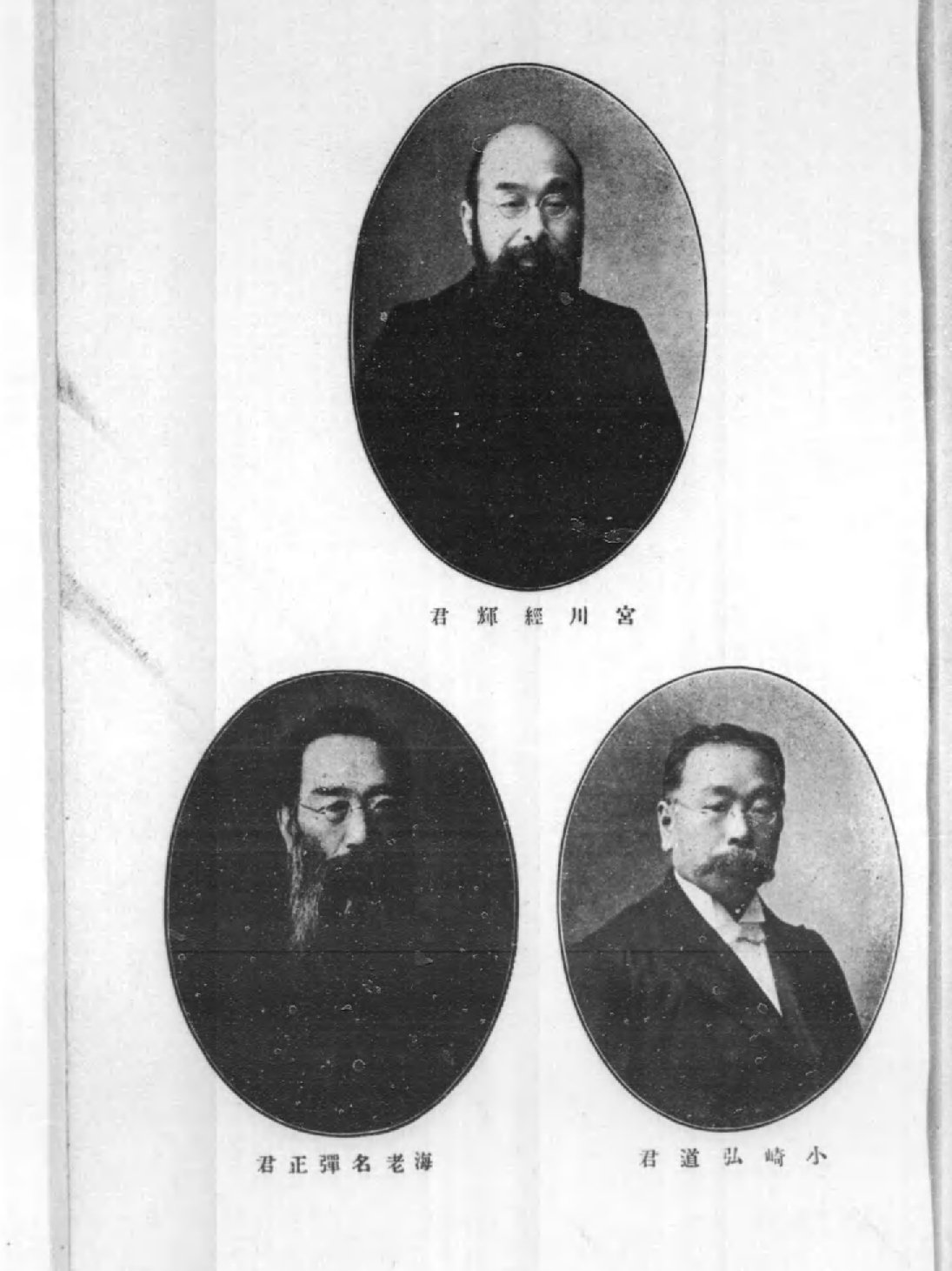 Japan Kumiai Church minister.